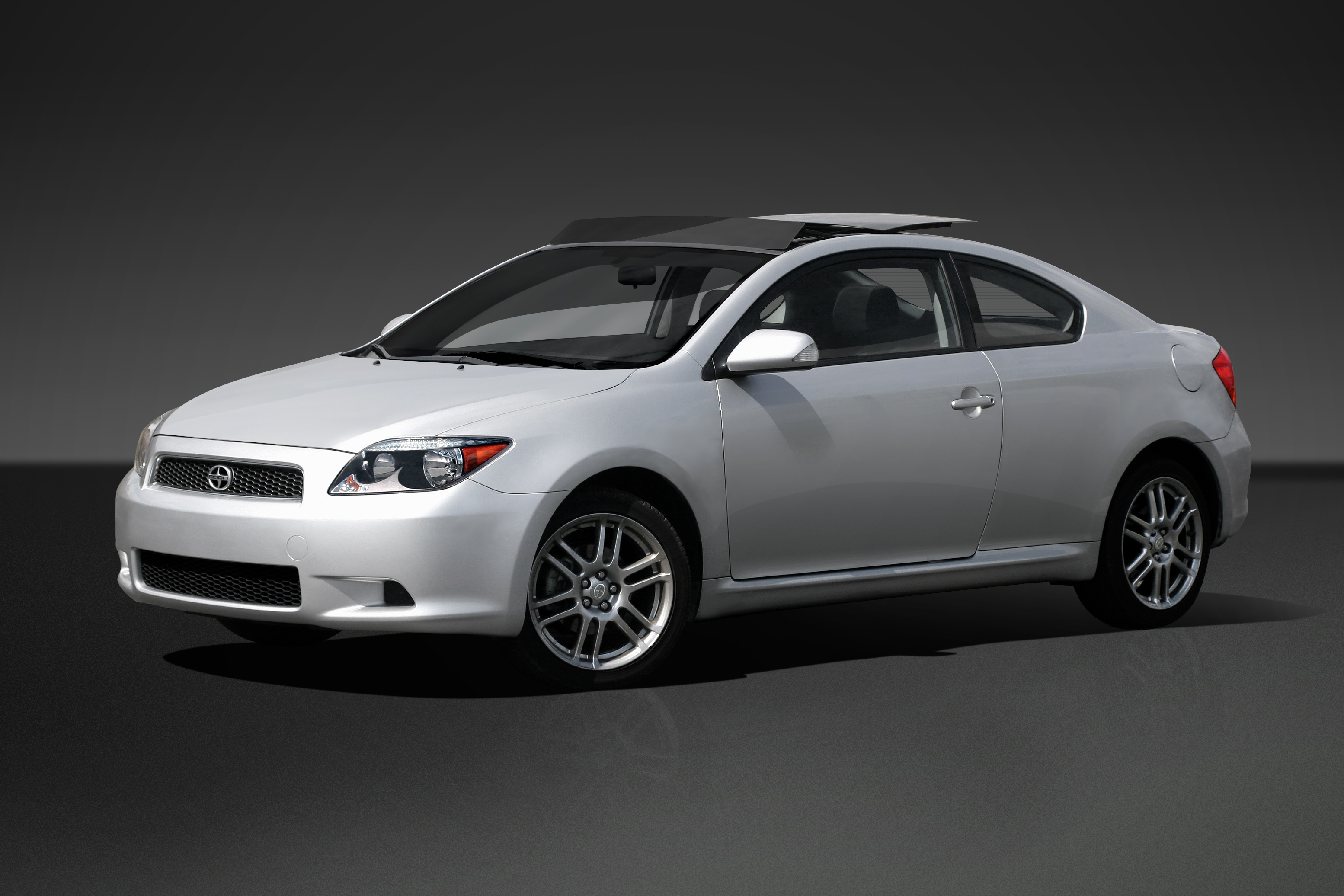 2007 Scion tC